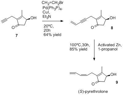 Synthesis of the alcohol moeity of pyrethrin I, (S)-pyrethrolone.